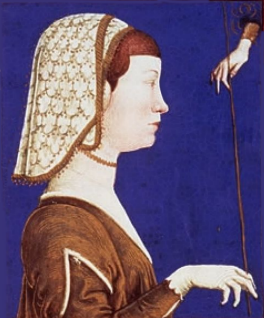 Portrait of Eleonora d'Aragona, Duchess of Ferrrara, from a manuscript "Il modo di regere e di regnare" by Antonio Cornazzano (MS M 0731, fol. 1r; New York, The Pierpont Morgan Library)